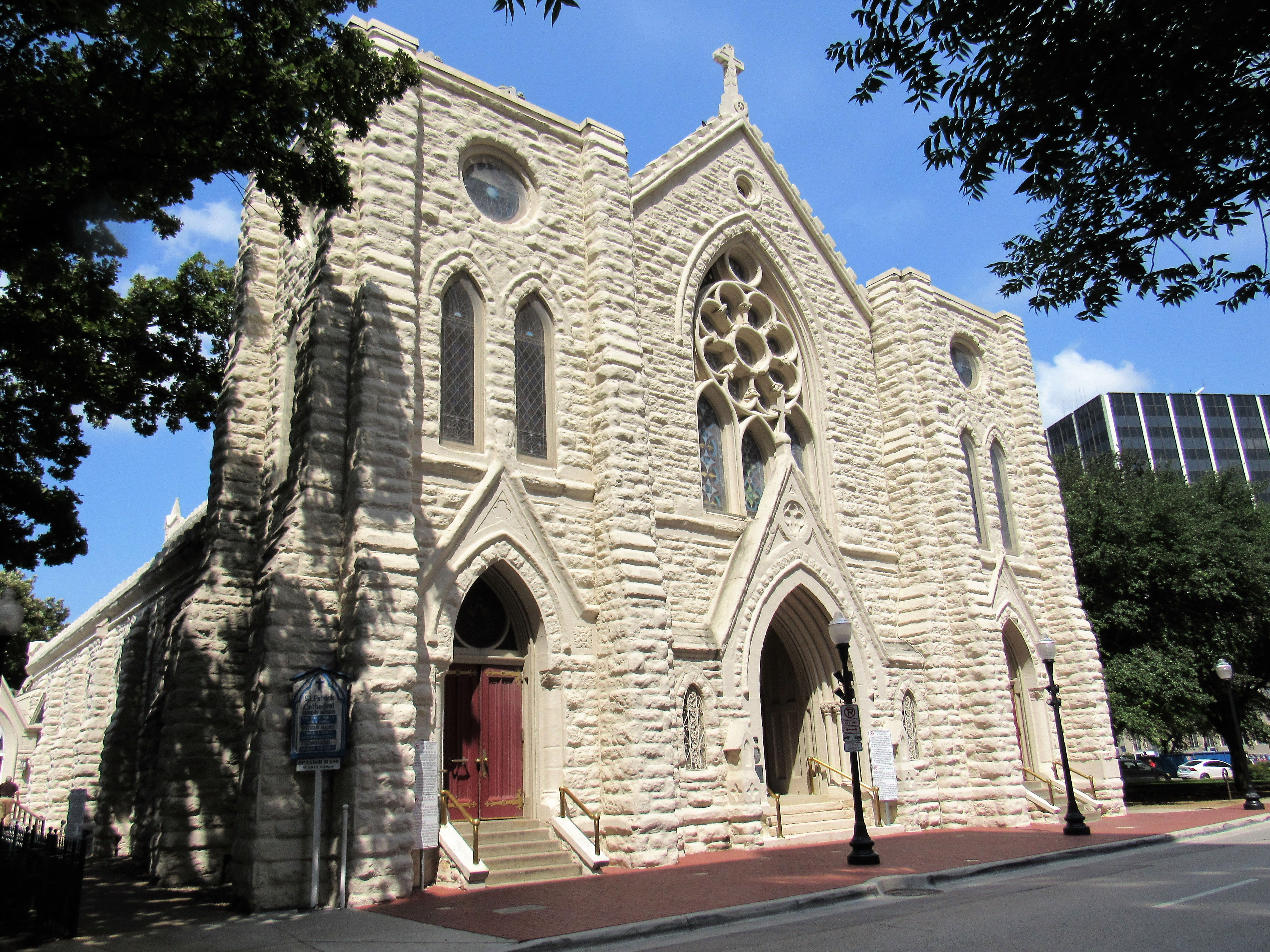 St. Patrick Cathedral in downtown Fort Worth, Texas.